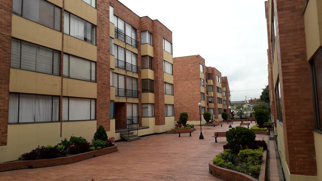 An apartment complex categorised as strata 4